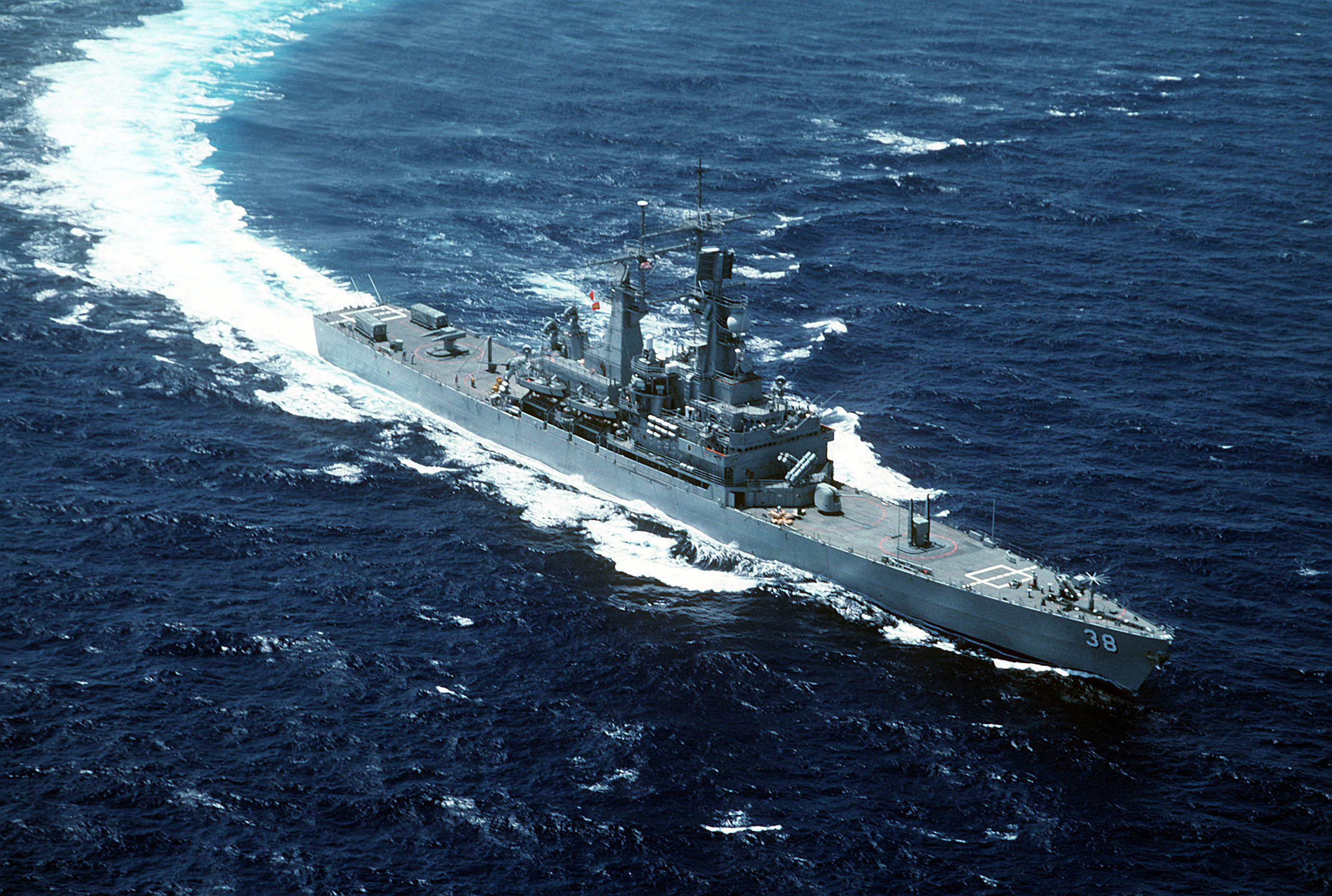 The U.S. Navy guided missile cruiser USS Virginia (CGN-38) underway in the northeastern Mediterranean on 26 April 1991 while operating in support of Operation Provide Comfort, a multinational effort to aid Kurdish refugees in southern Turkey and northern Iraq.